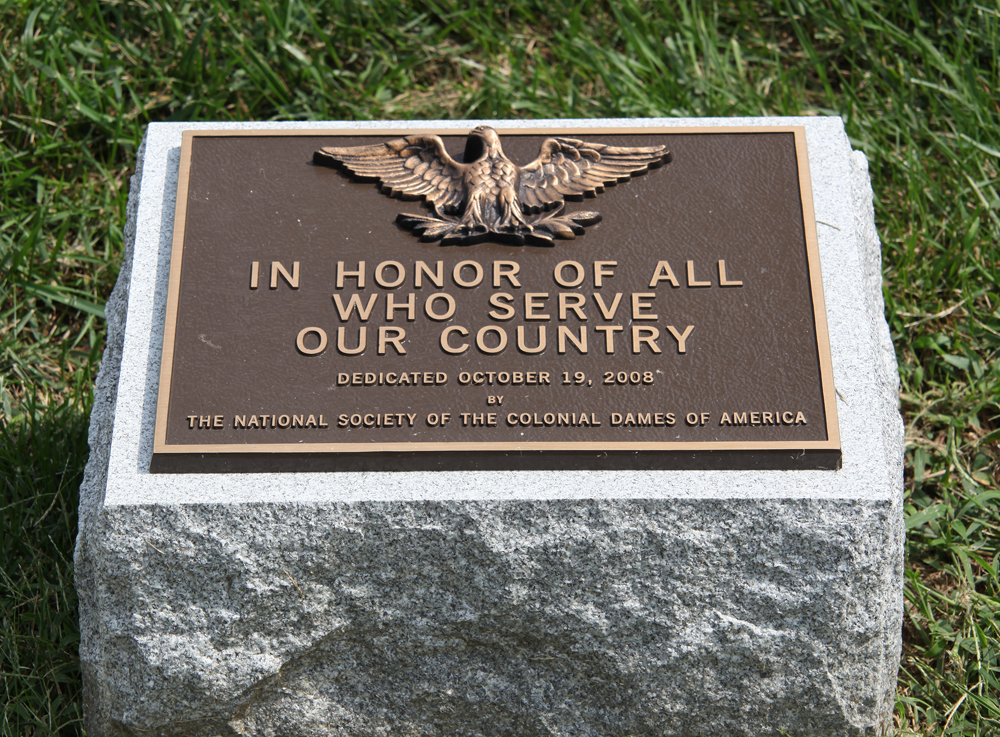 Bronze plaque at the west side of the Spanish-American War Memorial at Arlington National Cemetery in Arlington, Virginia, in the United States. The memorial is located in the easternmost portion of Section 22. The National Society Colonial Dames asked for permission to erect a memorial in the cemetery to the war's dead in March 1901. Quartermaster General Marshall I. Ludington made some changes to the design, which was approved on October 23, 1901. The monument was dedicated by President Theodore Roosevelt on May 21, 1902. It was the first monument ever erected at the cemetery by a society of women. The monument consists of a column on a base, situated in a small plaza. The granite column from Barre, Vermont, is 50 feet high, Corinthian in style, and surmounted by a sphere of granite from Quincy, Massachusetts. The dark grey granite is highly polished, and with a band of rough granite lined with stars about the circumference. The sphere is tilted at a 15 degree angle, and a bronze eagle -- facing west, wings spread -- is mounted on the top of the sphere. The light grey square granite base as a highly polished black granite sphere 18 inches in diameter at each corner. Along the upper eage of the base are bronze stars, 5 inches wide. There are 11 stars on each side of the base (representing the 44 U.S. states at the time of the war). Bronze plaques commemorating the war dead adorn the front (west) and rear (east) of the base. The monument sits in a circular grassy space. Lawton Avenue circles the space. At the rear of the monument, across the roadway, are four cannon mounted on brick and concrete stands. The guns face northeast, east, southeast, and south. The two outer guns are captured Spanish bronze field artillery. The and are made of bronze. The two inner guns are made of steel, and came from U.S. Navy ships which served in the war. A bronze plaque on a granite marker was added to the front of the memorial plaza on October 11, 1964.